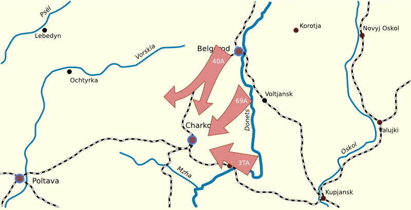 Operation Star, Soviet advance Feb 10-14 1943